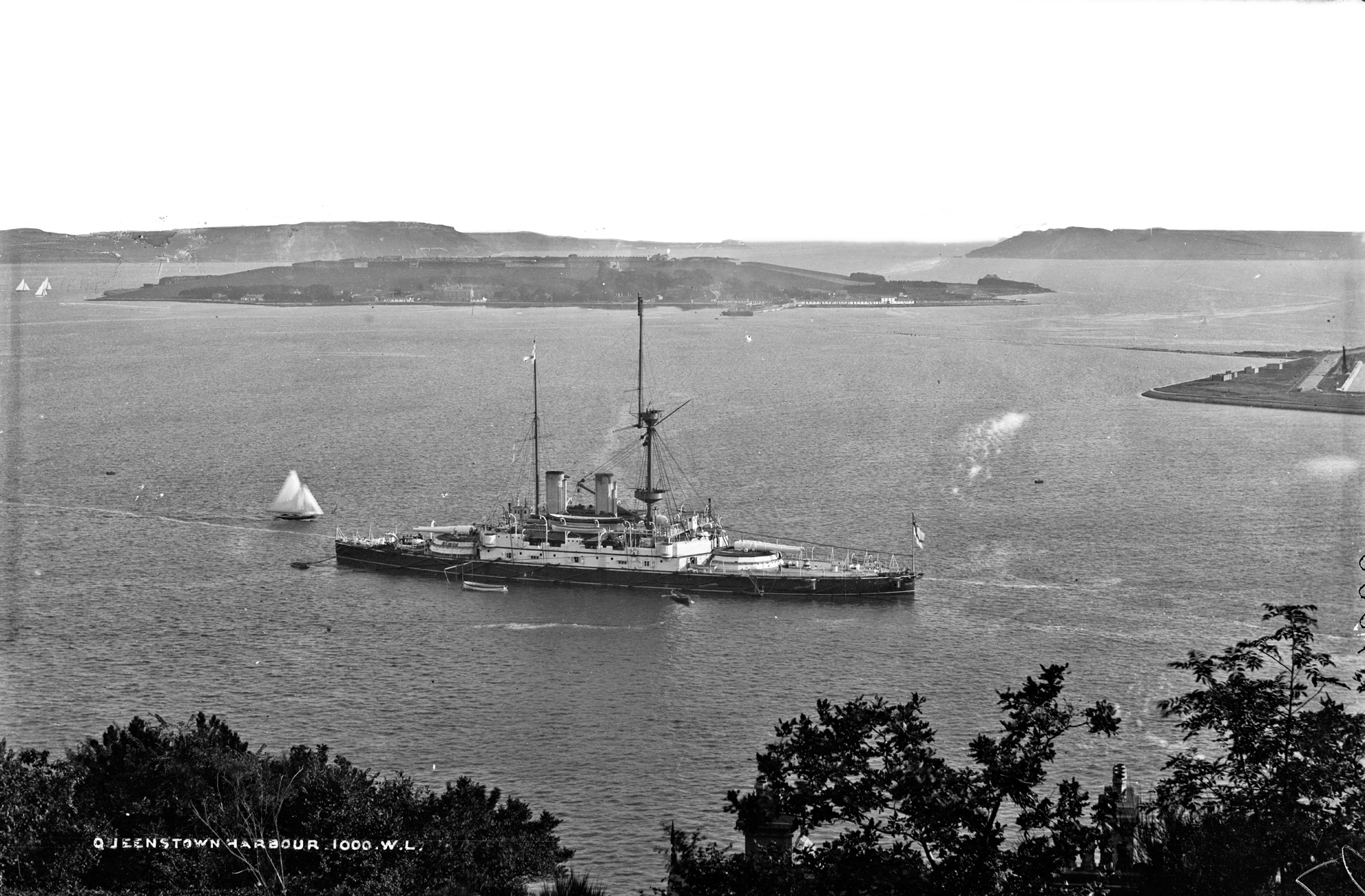 This Lawrence Cabinet sized glass plate shows a great view of Queenstown Harbour with Spike Island, a corner of Haulbowline and the Royal Yacht (I think?) on a fine clear day! Should it be the Royal Yacht then dating the image should be relatively easy? As it happens though, dating this image hasn't been as easy as we'd imagined. Firstly, we learned that this isn't the Royal Yacht at all - but the battleship HMS Howe. As the HMS Howe was a "port guardship" in Cork Harbour from 1896-1901, we might surmise that this image dates that period in the late-1890s. However, there's a suggestion that we should also perhaps be able to see an 1890s storage shed on Haulbowline (right middle-ground). While the absense of this shed might imply a slightly earlier visit, as we understand Howe had just two main guns until 1890 (and we clearly see four here), we're likely after that date.... Photographer: Robert French Collection: Lawrence Photograph Collection Date: Catalogue range c.1865-1914. Almost certainly 1890-1901. Likely mid-/late-1890s. Probably c.1896. NLI Ref: L_CAB_01000 You can also view this image, and many thousands of others, on the NLI’s catalogue at